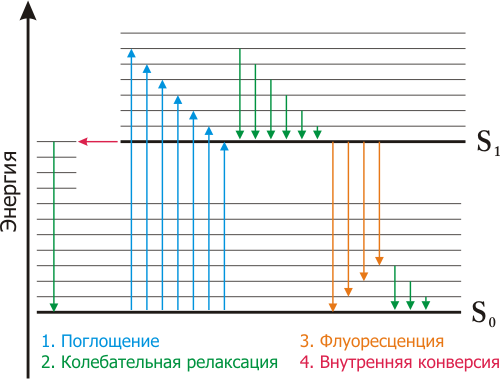 Jablonski diagram (schematic, russian)